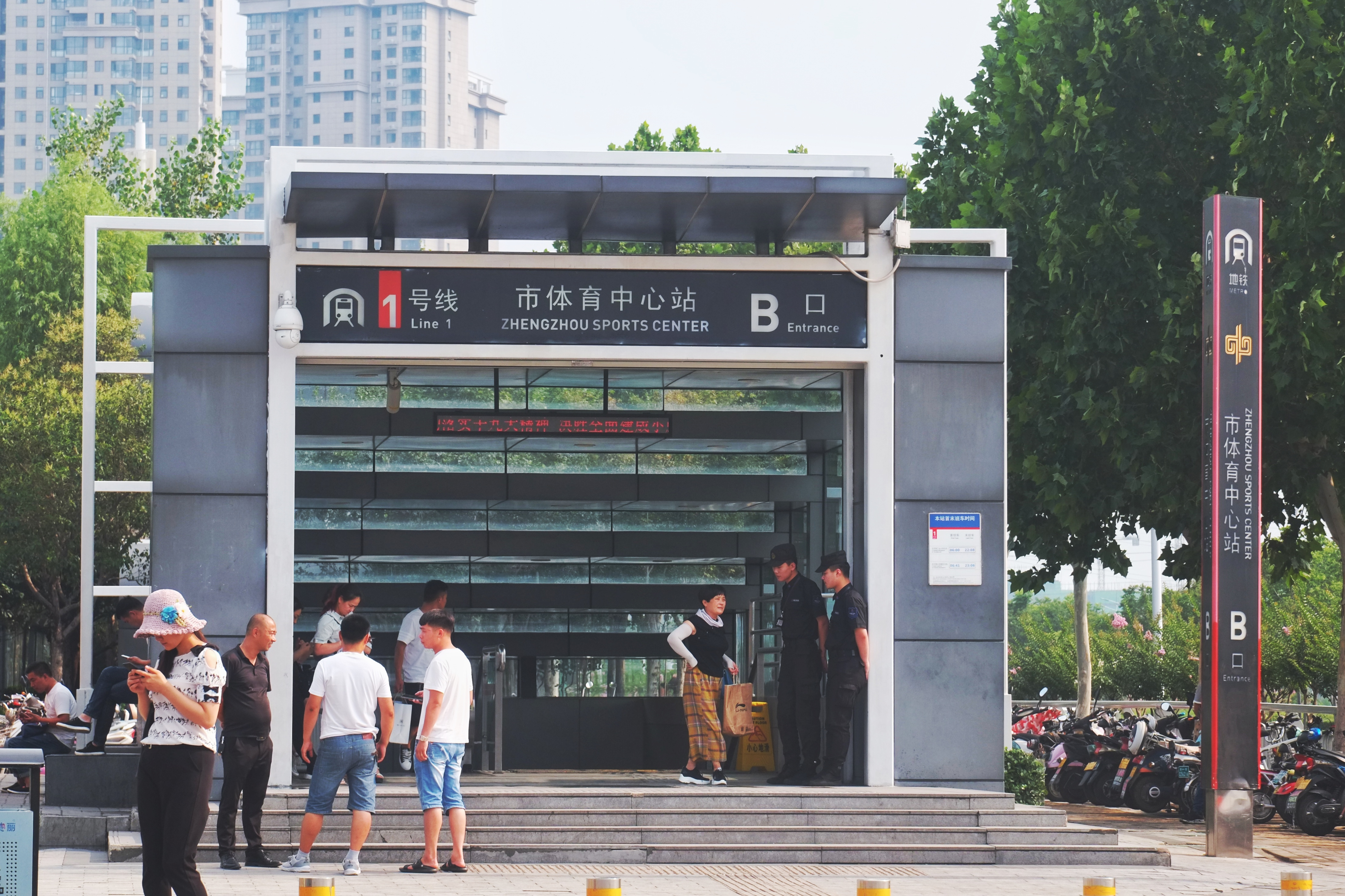 Entrance B of Zhengzhou Sports Center Station